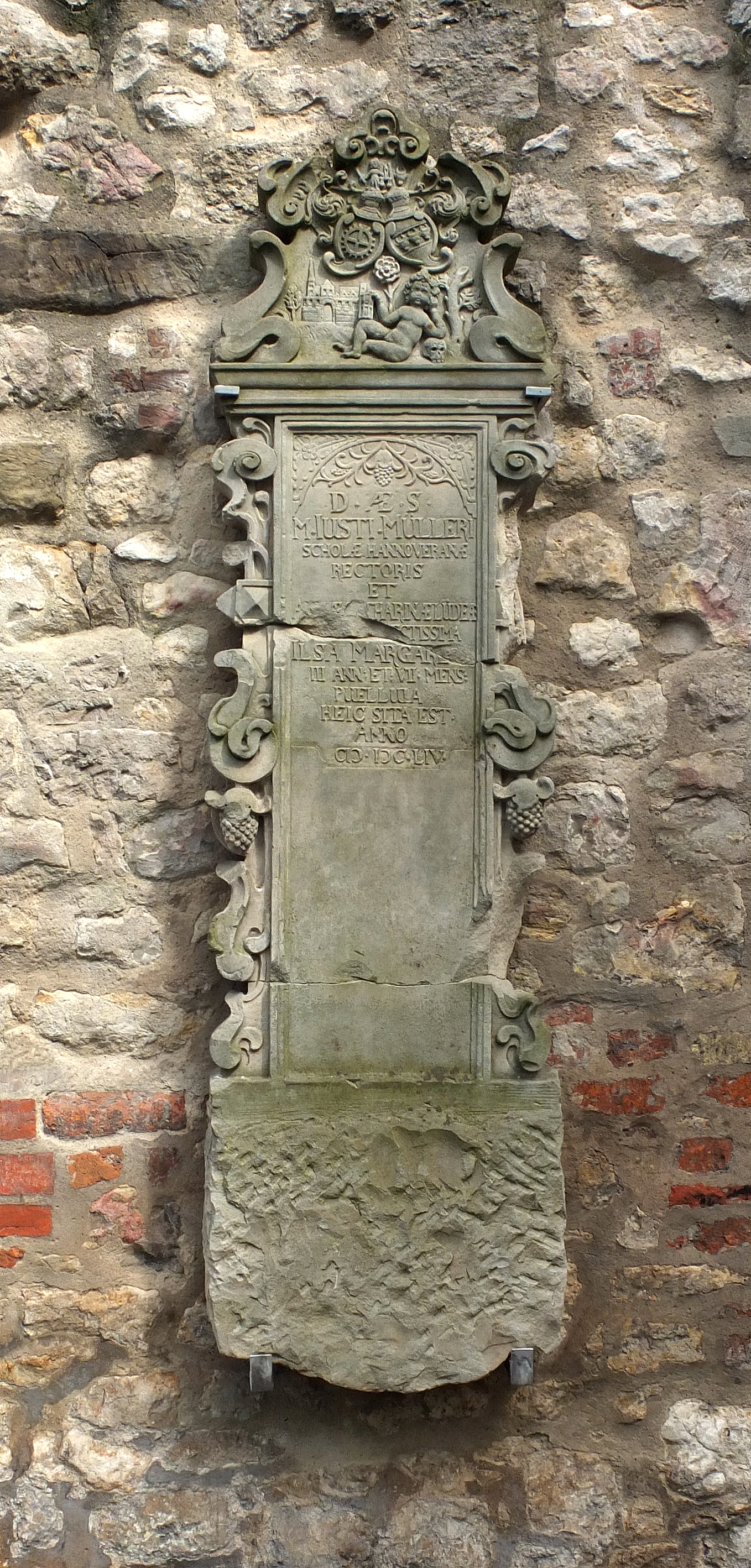 Hannover, "Nikolaikapelle": Epitaph for the daughter of Justus Müller and his wife. The girl ILSA MARGARE[TA?] died in 1654 at the age of 3 years and 7 months.